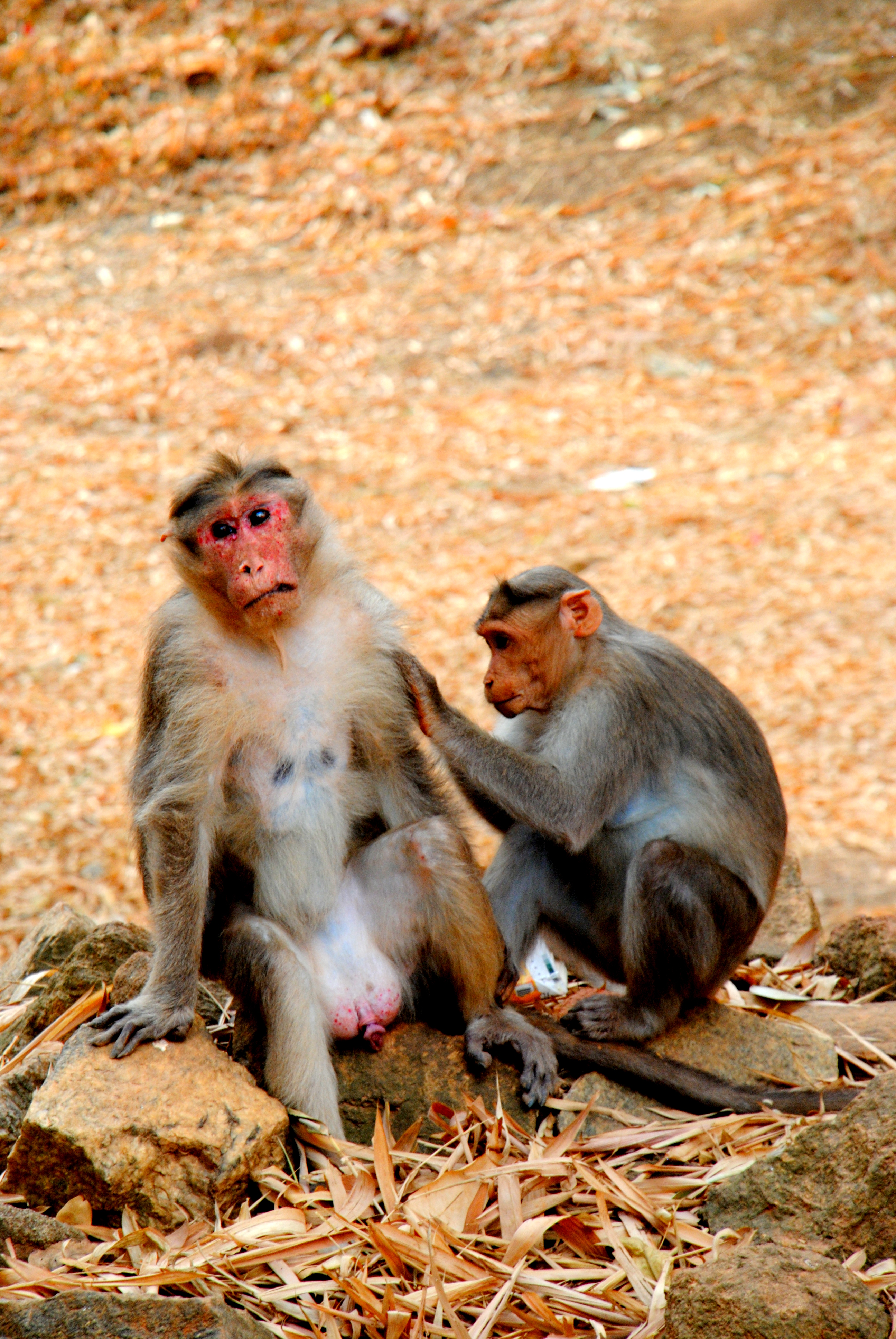 Macaques grooming